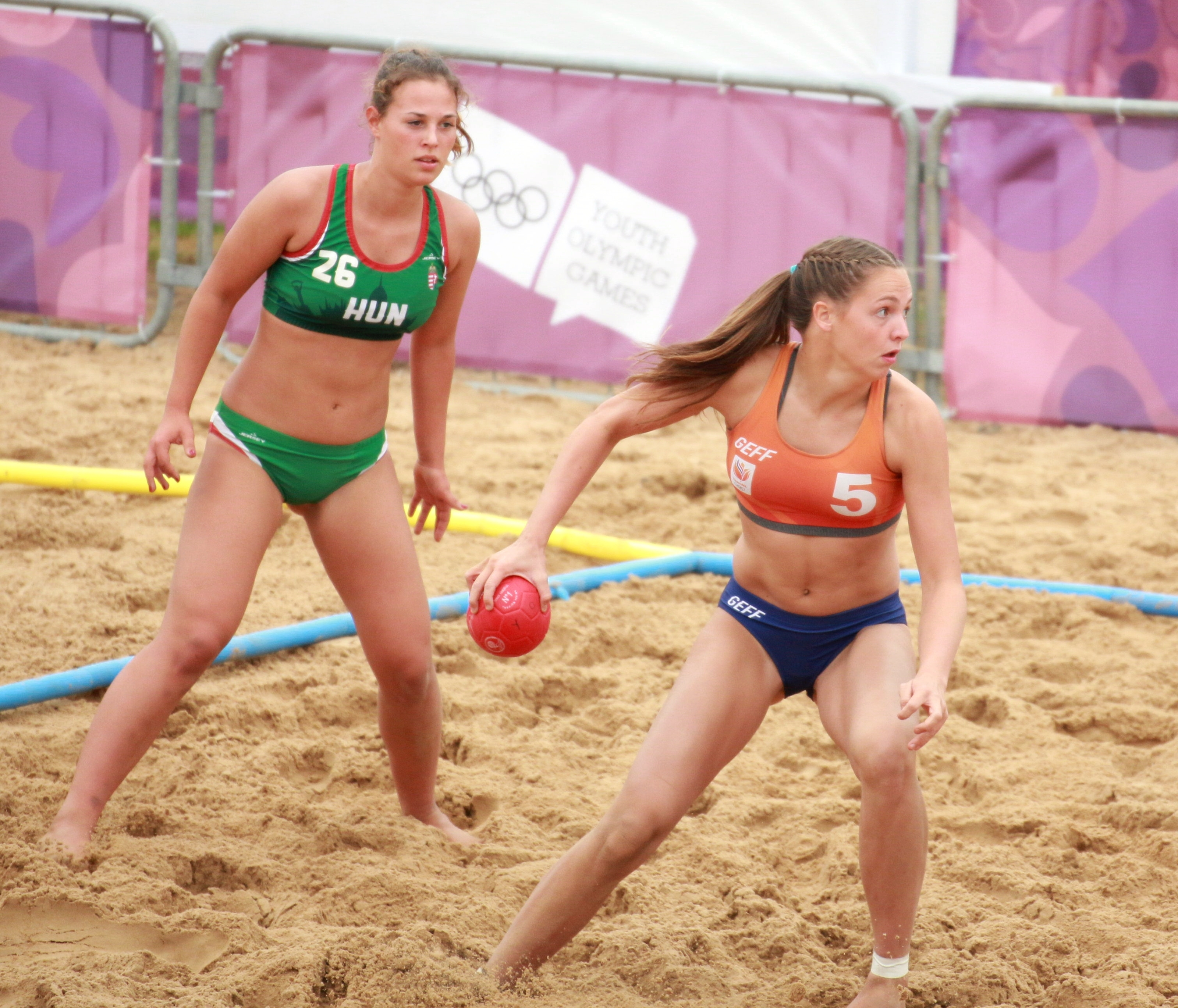 Beach handball at the 2018 Summer Youth Olympics at 12 October 2018 – Girls Main Round – Hungary-Netherlands 2:1